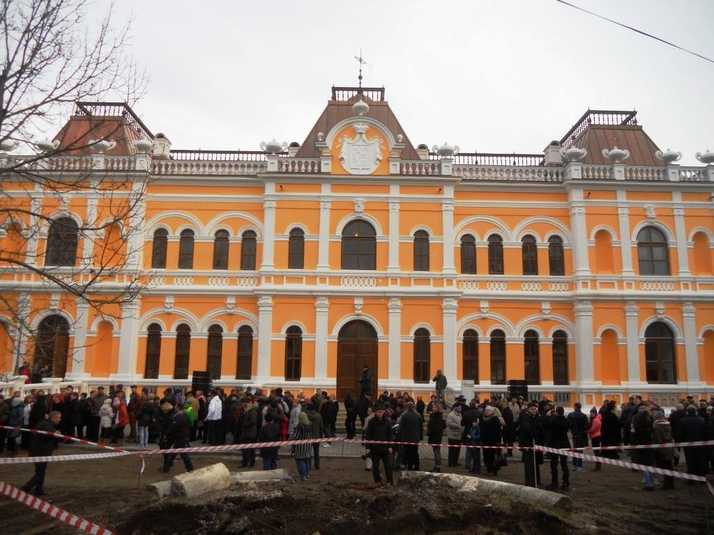 Doors Open Day at the mansion of Manuc Bei, located in Hîncești, Republic of Moldova